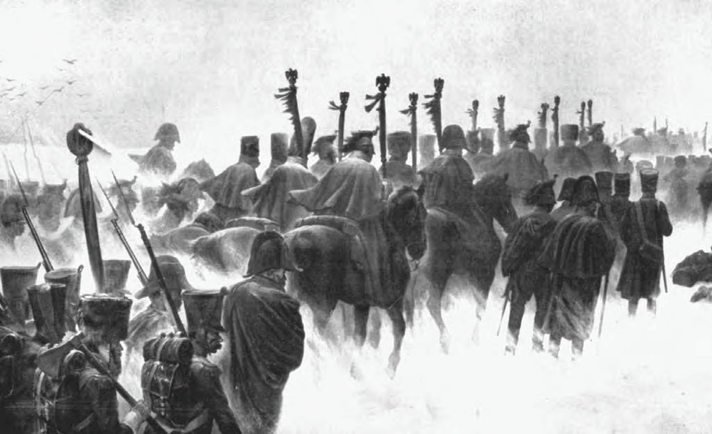 The retreat from Moscow. Remnants of the Grande Armée struggle through subzero temperatures and blinding snow in an epic march of misery and death that claimed the lives of countless thousands.